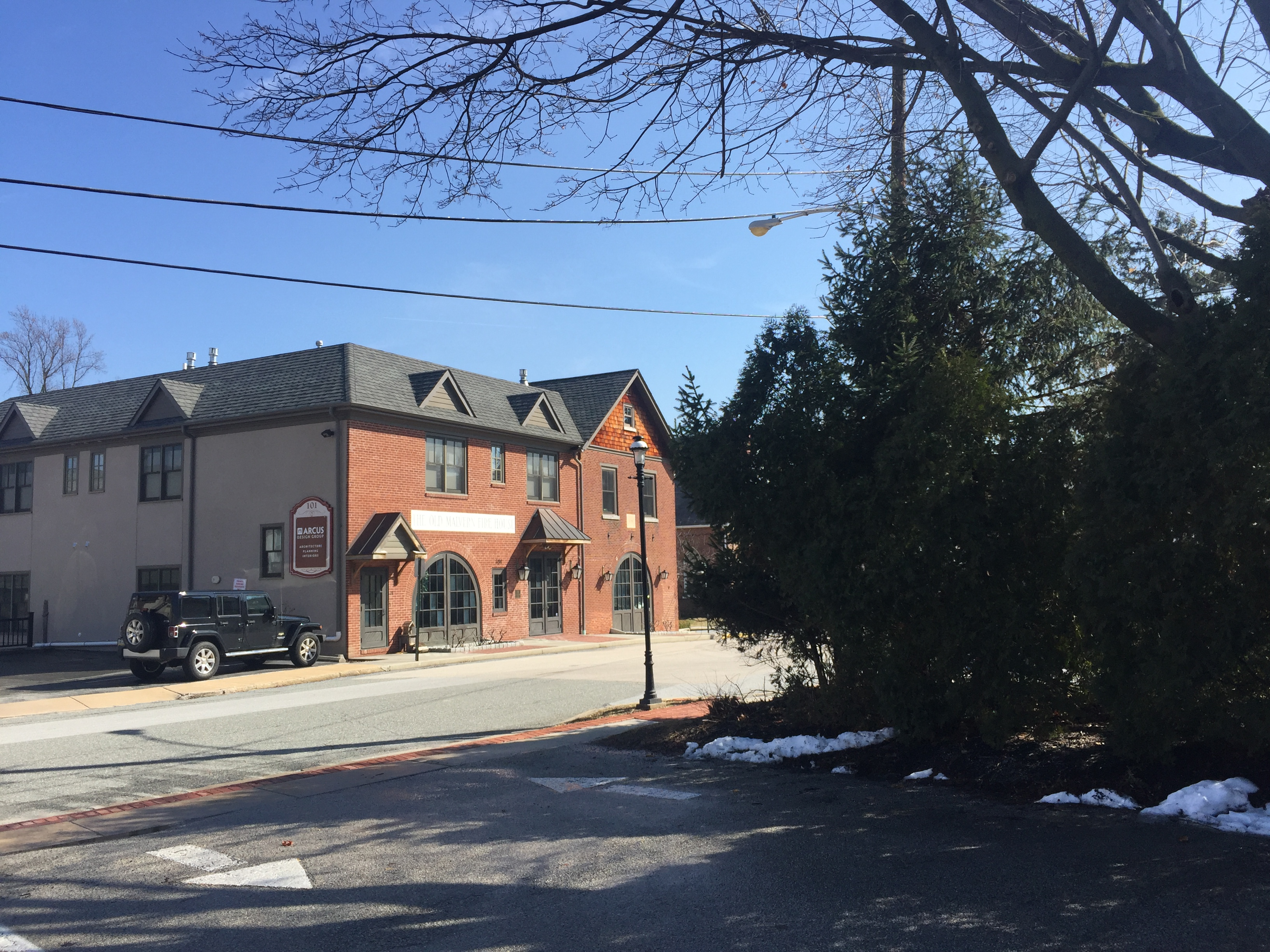 Old Fire department